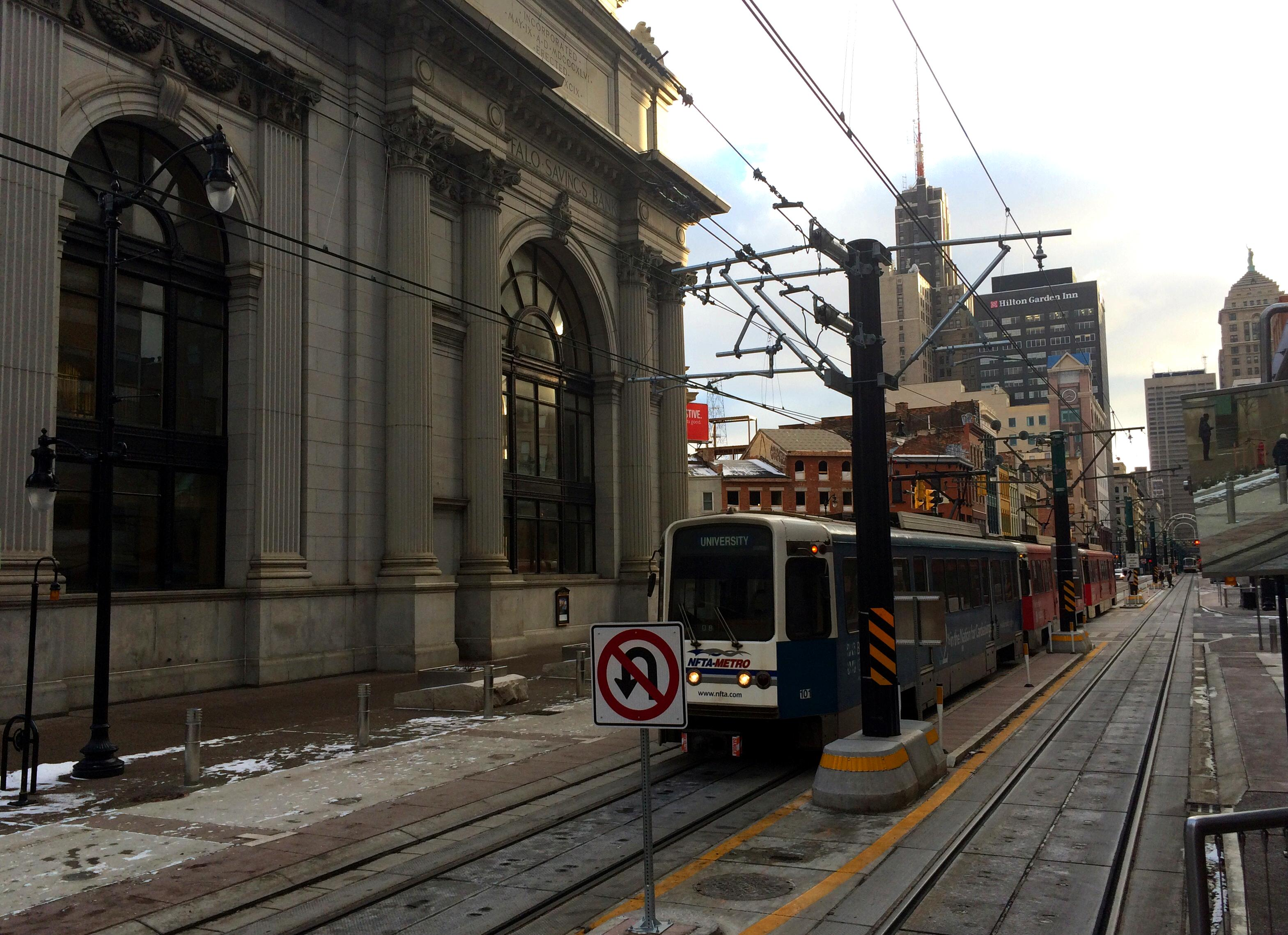 An outbound NFTA Metro Rail train pulls into Fountain Plaza Station. With nearly 25,000 riders per day, the Metro Rail boasts the third-highest number of passengers per mile (km) among light-rail systems in the United States. It extends 6.4 miles (10.3km) between Canalside and the South Campus of the University at Buffalo.